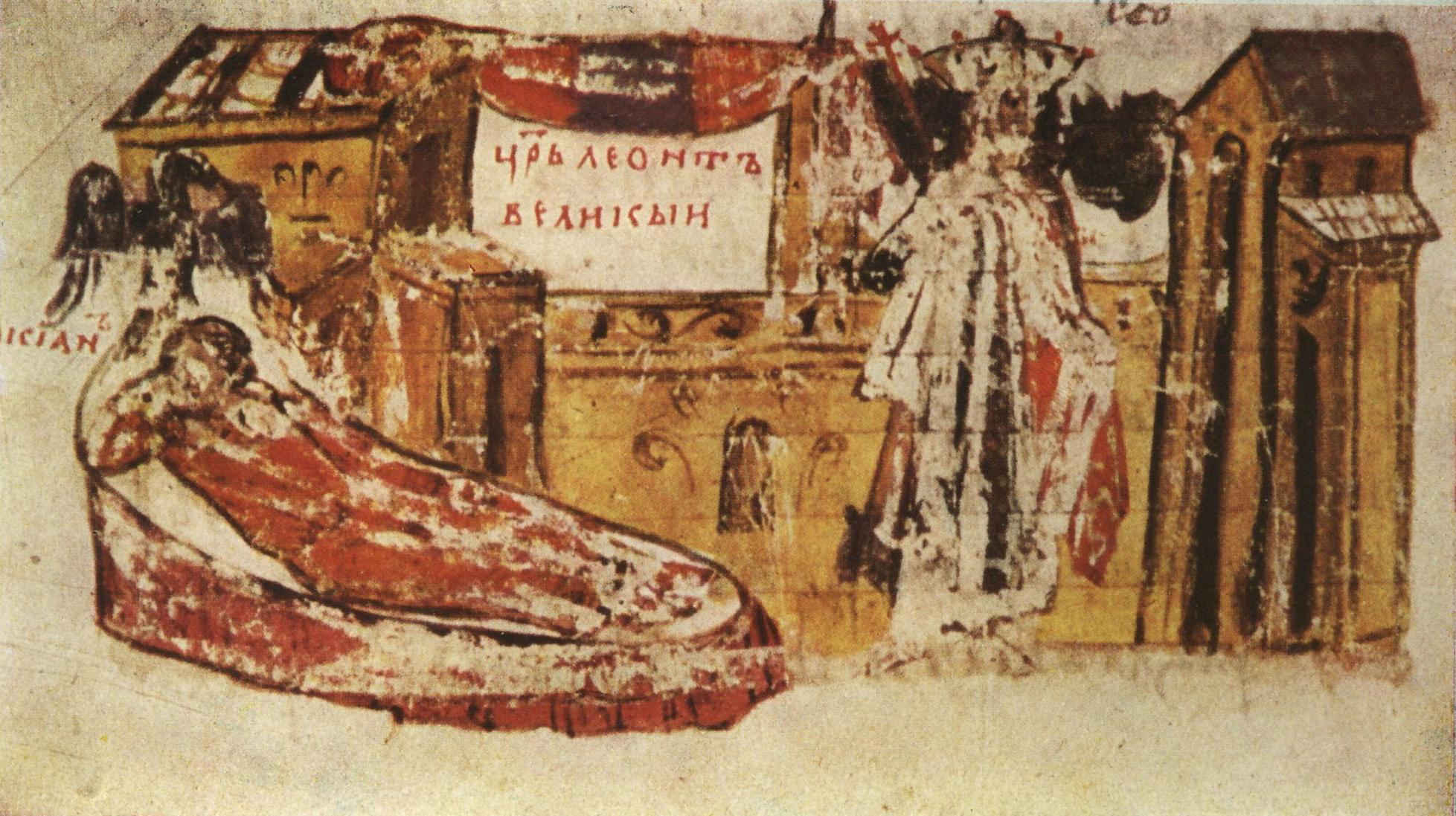 Miniature 35 from the Constantine Manasses Chronicle, 14 century: Emperors Marcian and Leo I